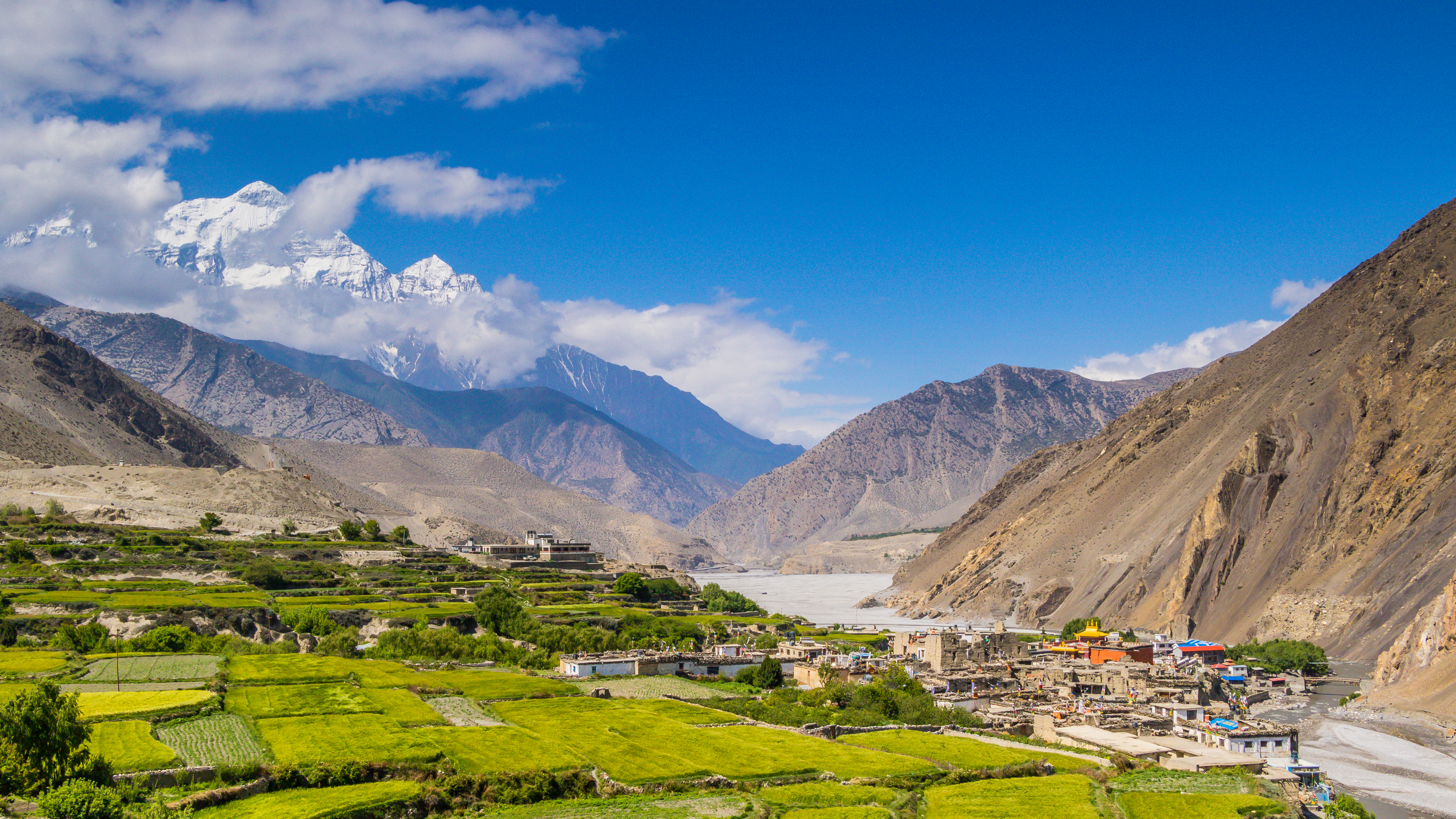 The fascinating and beautiful village of Kagbeni (2840m) on sea level. Kagbeni is a village in the Upper Mustang of the Himalayas, in Nepal, located in the valley of the Kali Gandaki River Kagbeni (or Kag) is found upstream on the Kali Gandaki, on the road/trail to Lo Manthang. 2000 people residing in 360 individual households. Kagbeni mustang is a different soil of the world or Nepal land.